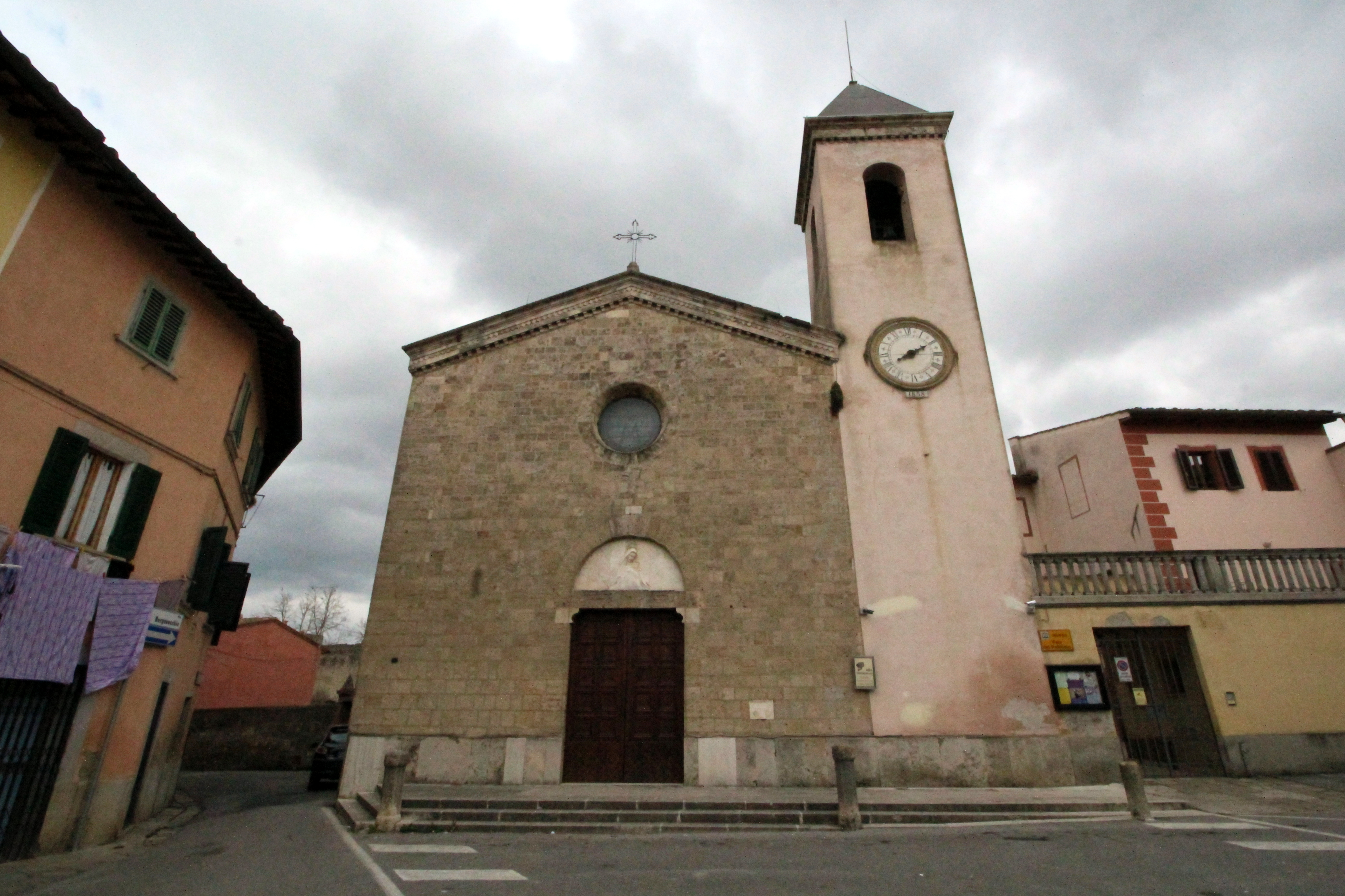 Church Santa Maria Assunta, Staggia Senese, hamlet of Poggibonsi, Province of Siena, Tuscany, Italy